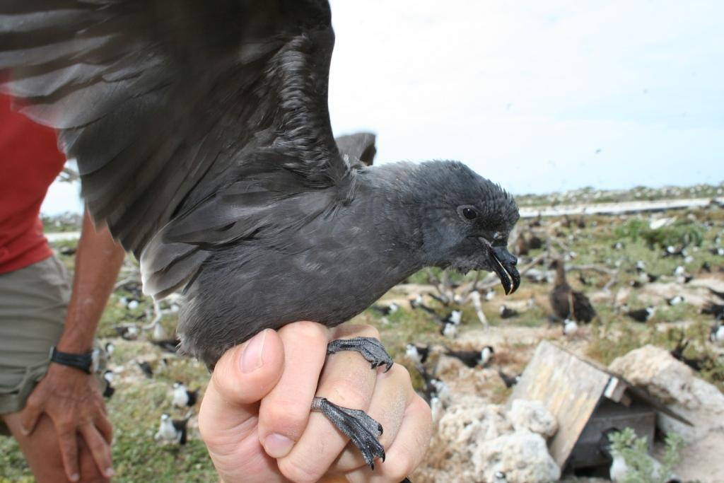 Tristam's Storm-petrel Oceanodroma tristrami at Tern Island, French Frigate Shoals